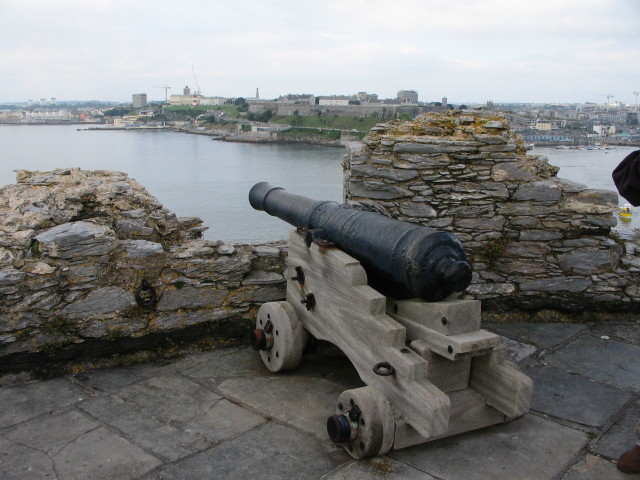 The Citadel from Mount Batten Tower The view of The Citadel was from the top of Mount Batten Tower, which offers fantastic views of the Hoe and Barbican.